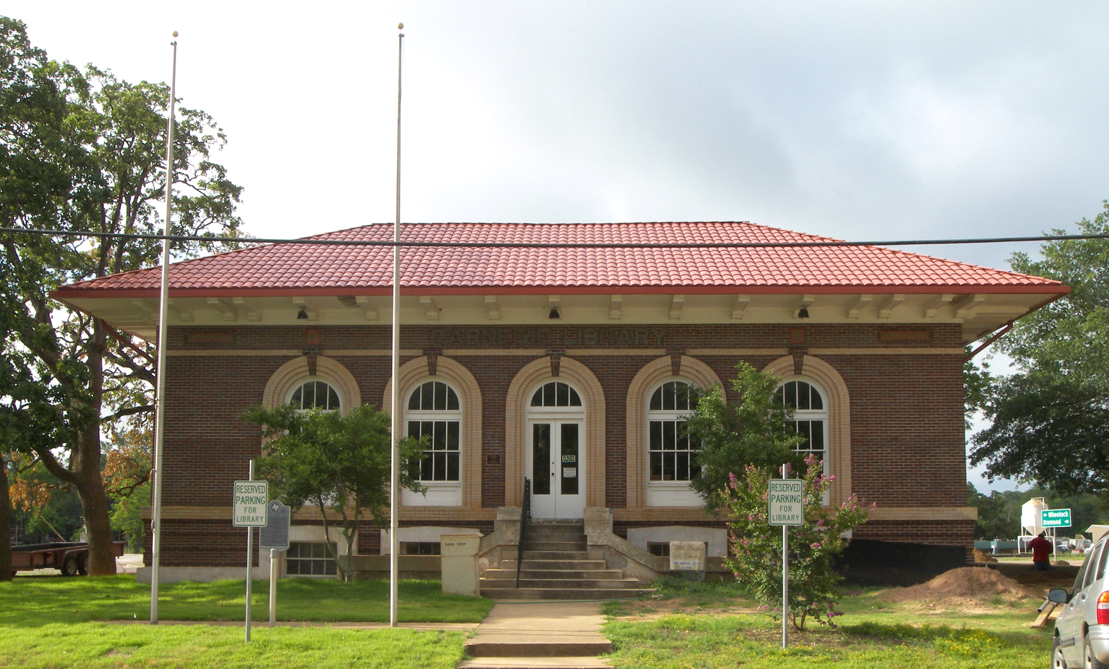 The Franklin Carnegie Library located at 315 East Decherd, Franklin, Texas, United States. The library was designated a Recorded Texas Historic Landmark in 1986 and was listed on the National Register of Historic Places on November 25, 2005.